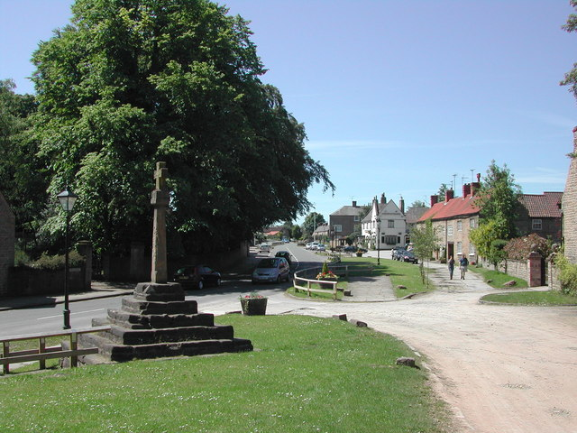 Bottom Cross, Linby Looking up Main Street towards the Horse and Groom.